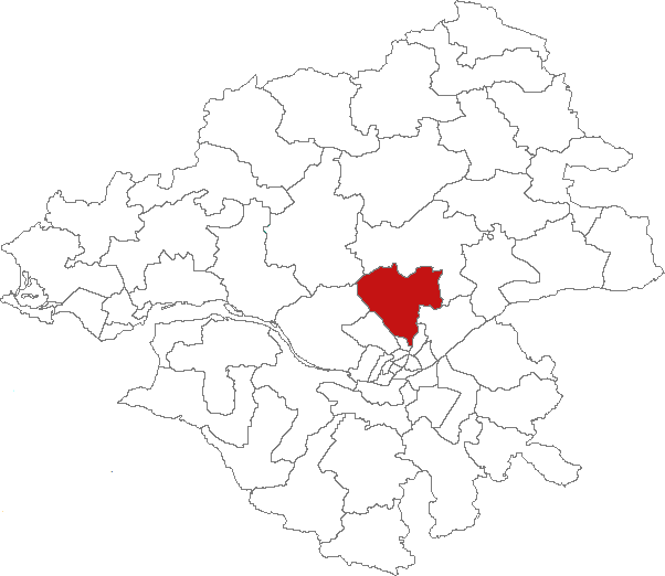 Map of canton of France : Canton de La-Chapelle-sur-Erdre, Loire-Atlantique, France